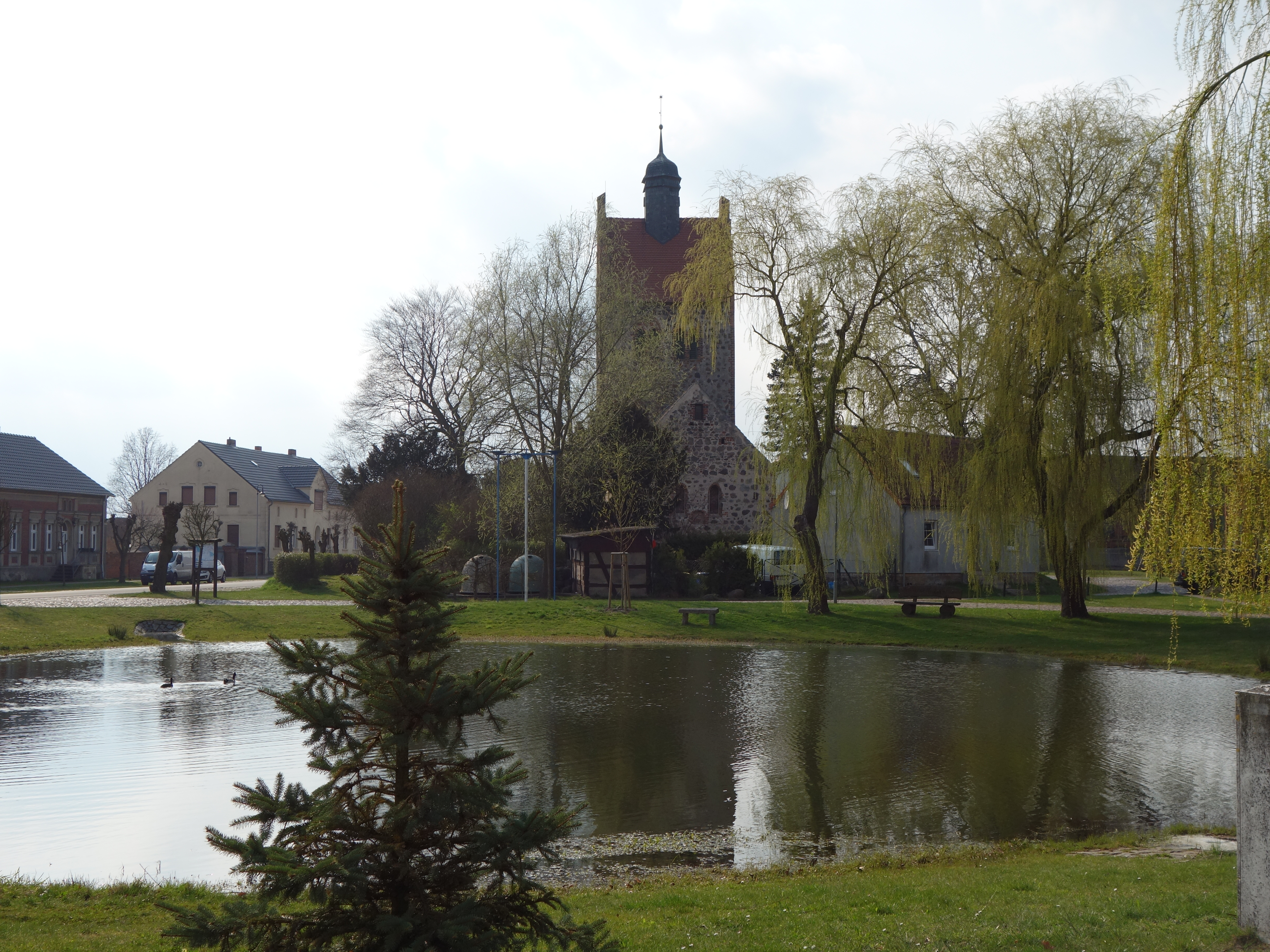 Eastern view of church in Schönermark, Stüdenitz-Schönermark municipality, Ostprignitz-Ruppin district, Brandenburg state, Germany